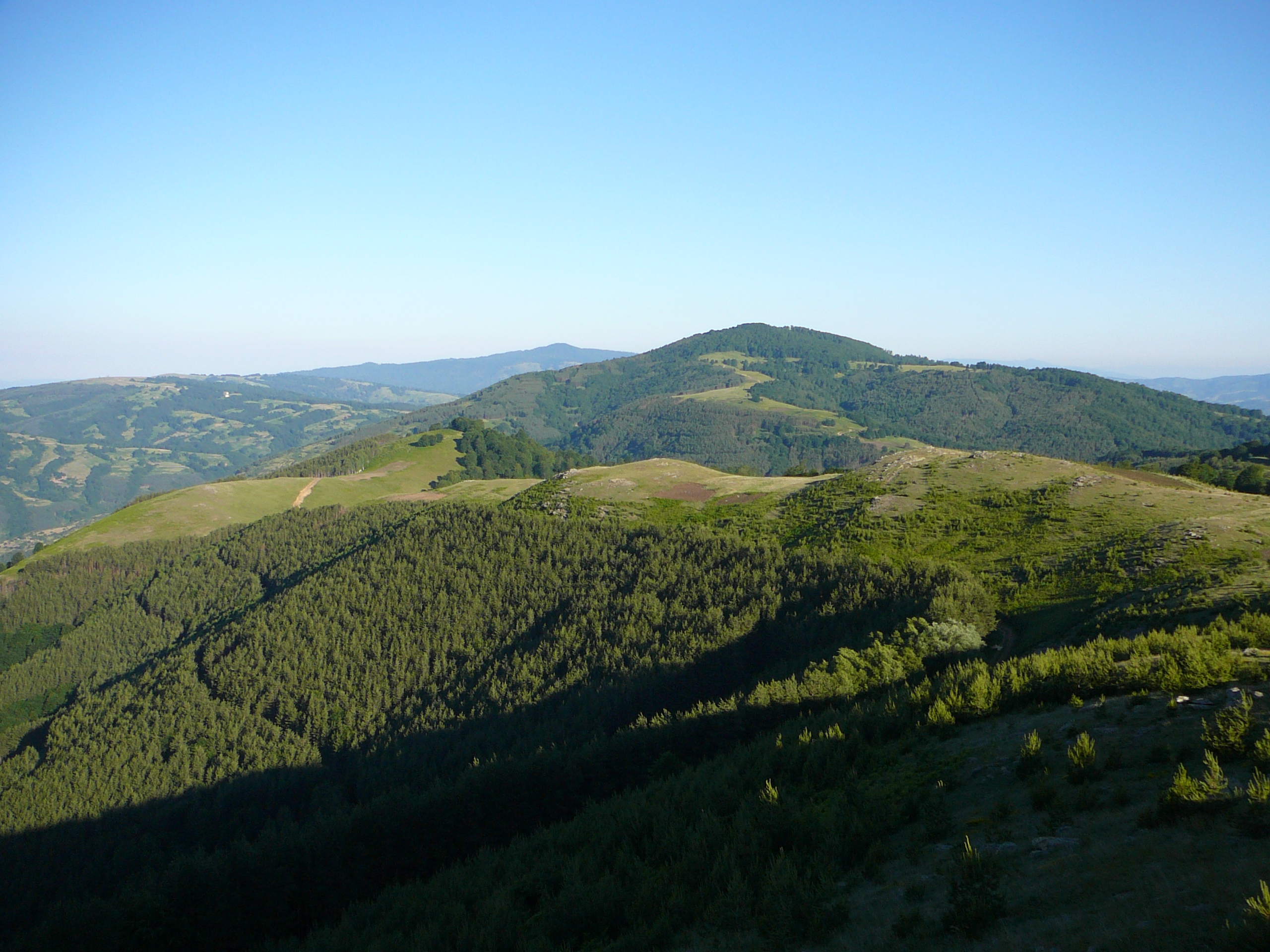 Peak Bilska chuka view from the east, Ograzhden, Bulgaria